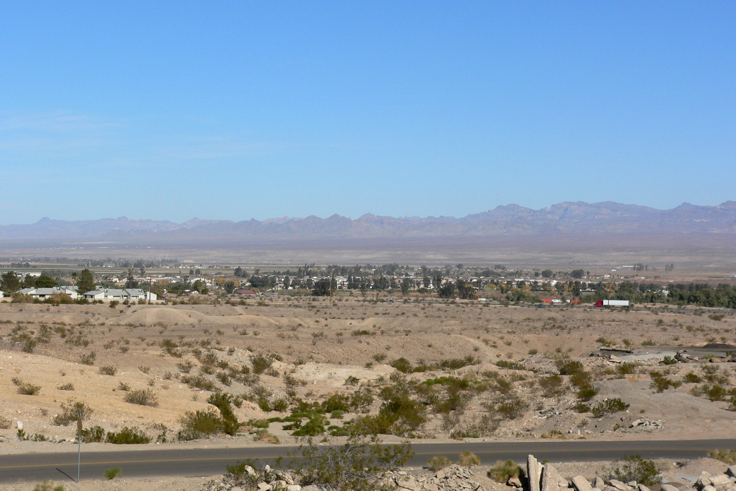 Needles and Mojave Desert, southeastern California — town seen from the southwest, beyond I-40 in foreground. Overlooking Mohave Valley, with Arizona beyond Needles and the Colorado River. The Black Mountains are in distance. Black Mesa (western Arizona) is the large block on right, with 2 wilderness areas in the region, and Oatman, Arizona.